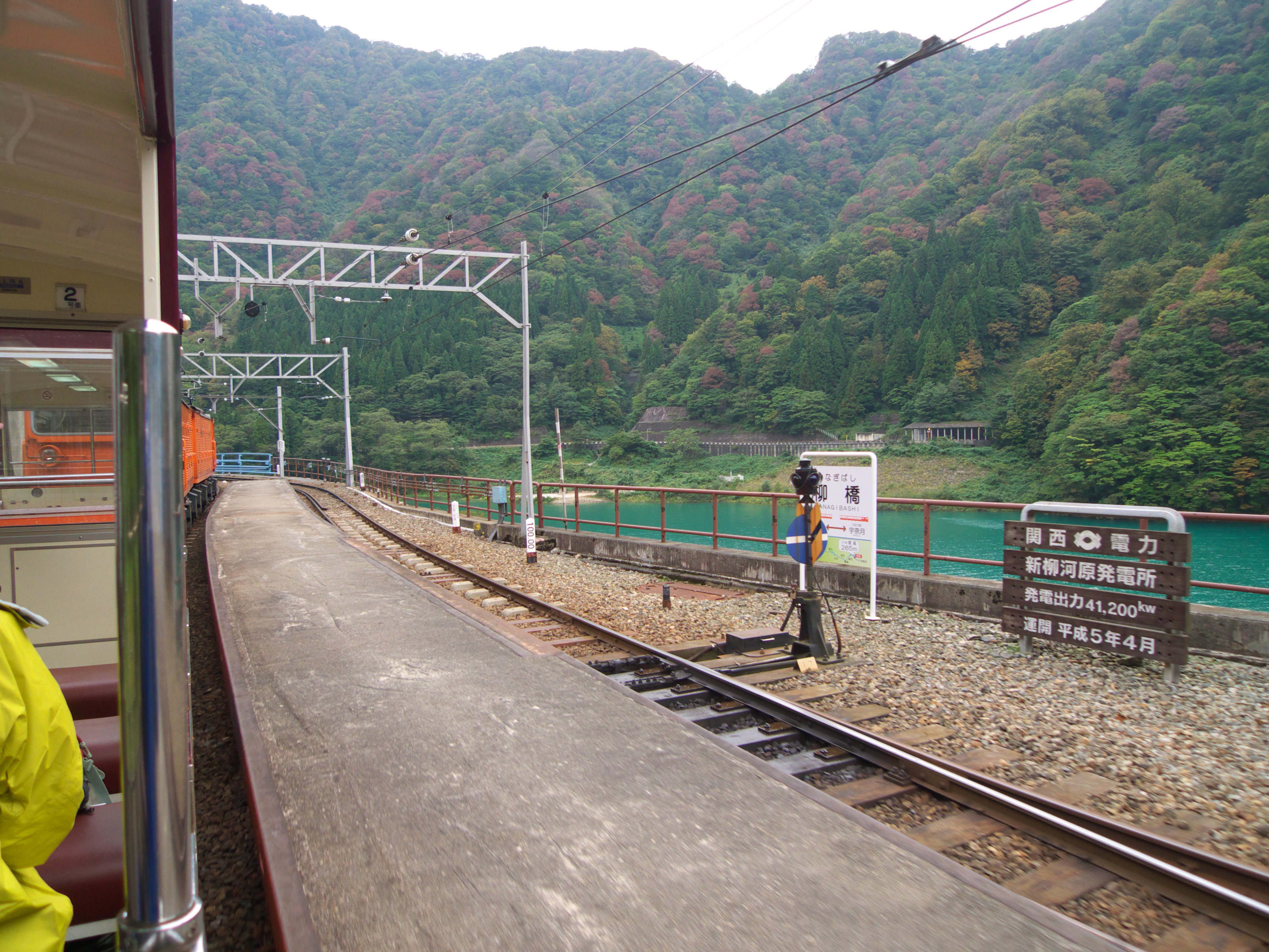 Kurobe Gorge Railway Yanagibashi Station